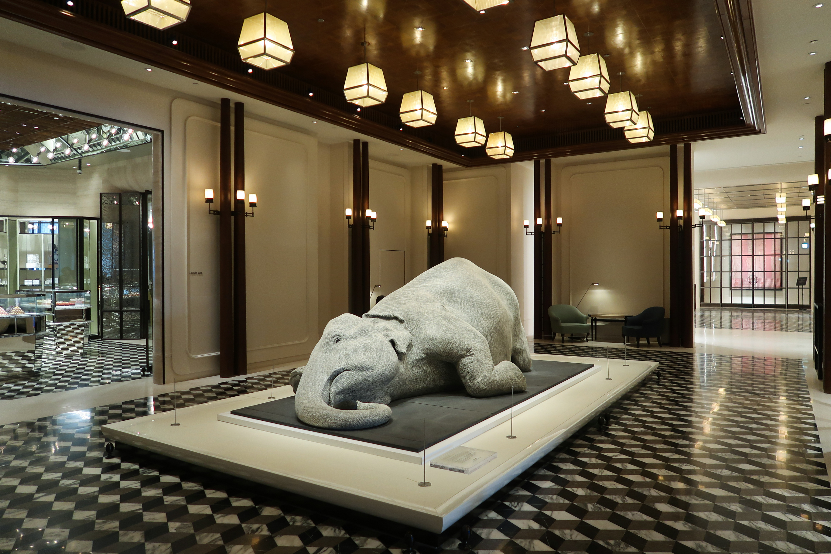 Rosewood Hong Kong Lobby, The Skin Speaks A Language Not Its Own